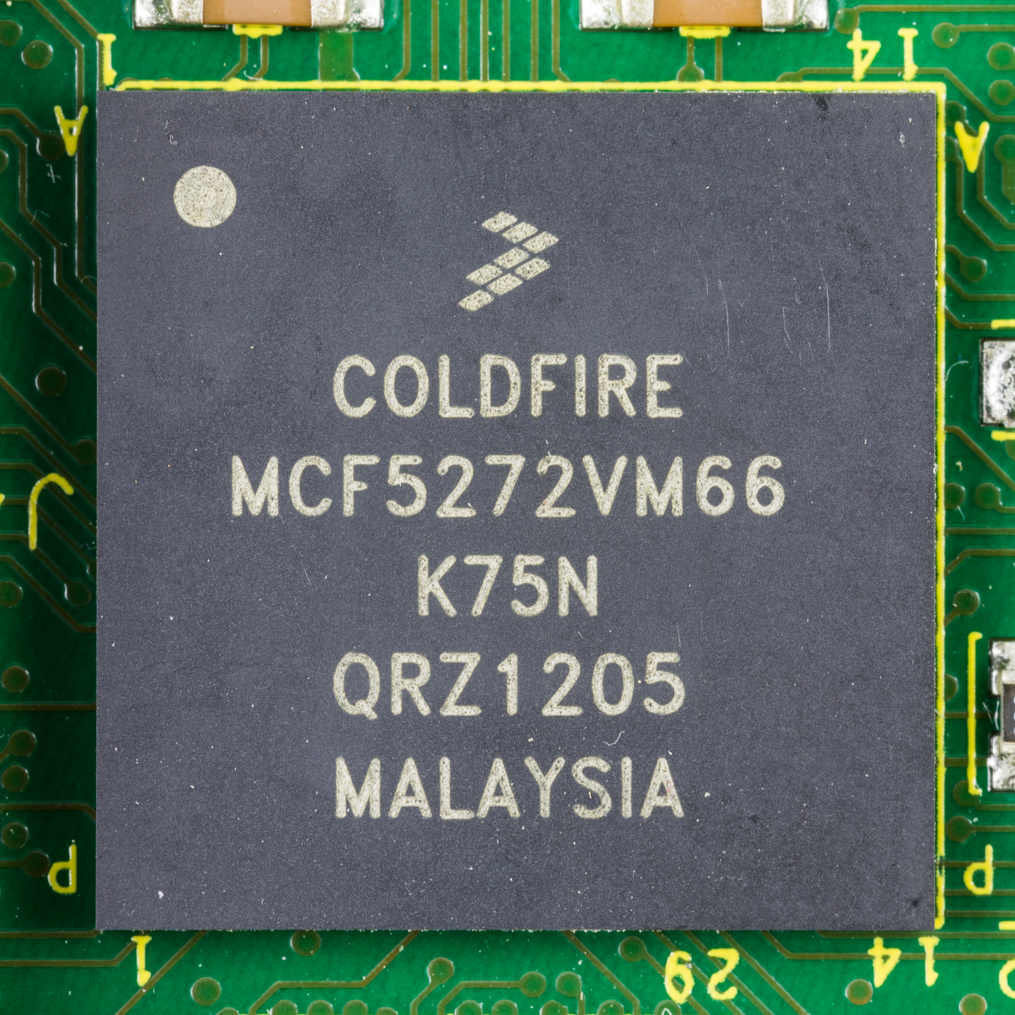 Extron DMP 128 - subboard 20-547-08LF - Freescale Coldfire MCF5272VM66 - Package: 96 ball-molded plastic ball-grid array package (PBGA)